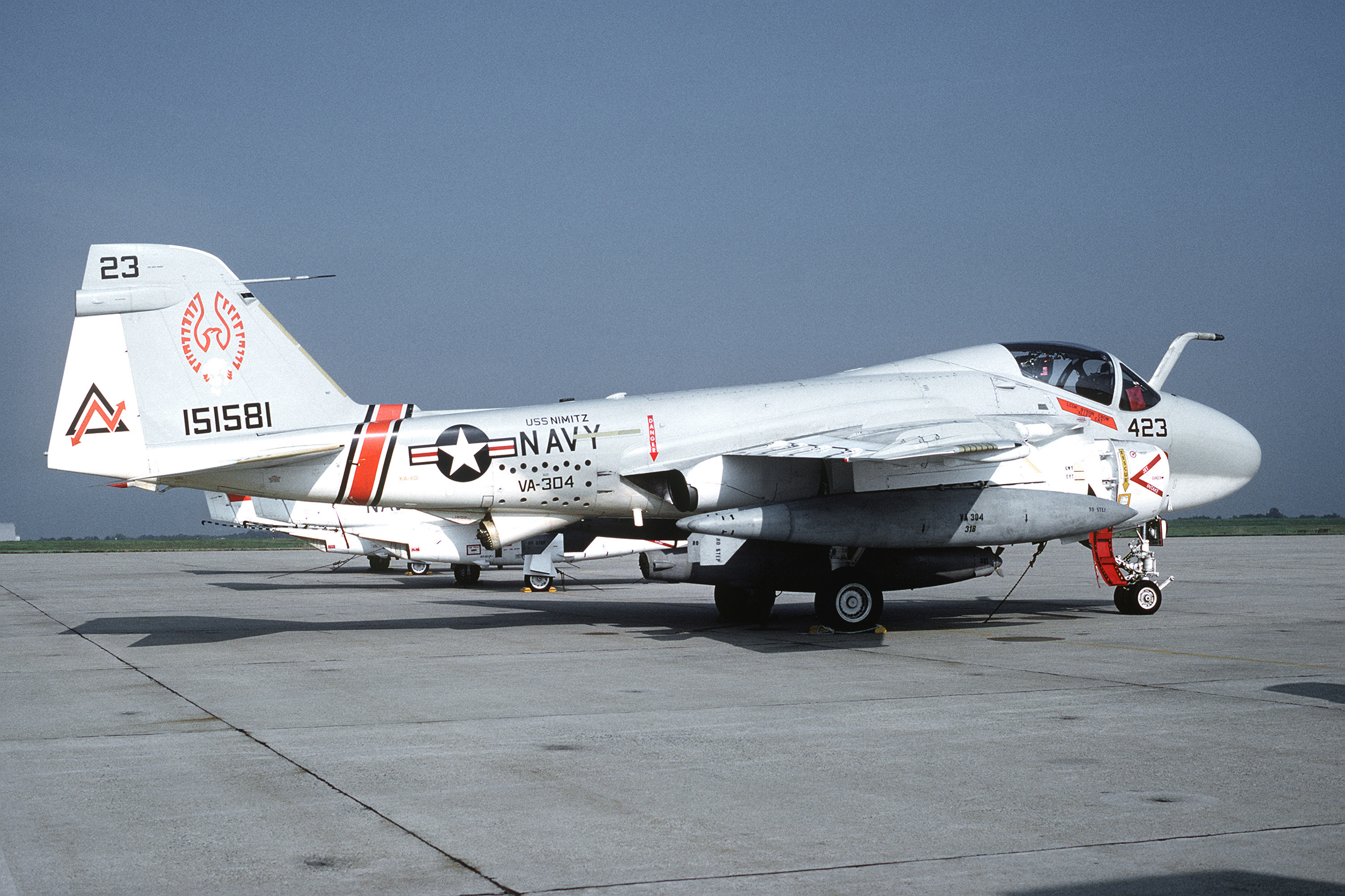 A U.S. Navy Reserve Grumman KA-6D Intruder (BuNo 151581) of Attack Squadron VA-304 "Firebirds" at Naval Air Facility Andrews, Virginia (USA), in 1990. The Reserve Carrier Air Wing 30 (CVWR-30) squadron was embarked aboard the aircraft carrier USS Nimitz (CVN-68) for an annual training period.